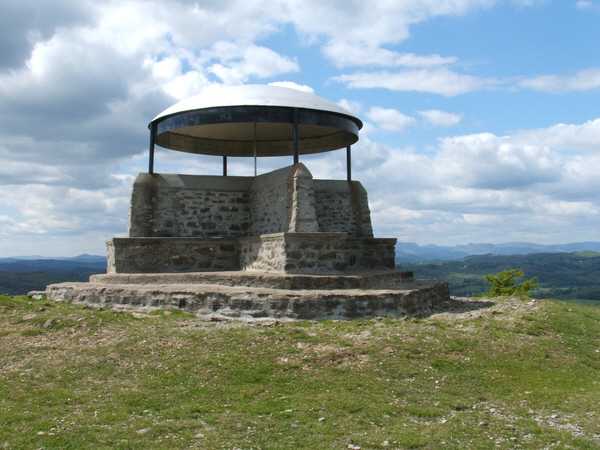 The Mushroom on Scout Scar. Shelter first erected to mark George V's coronation in 1912